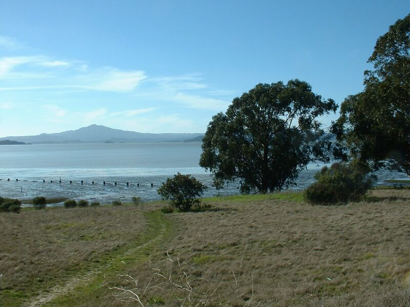 Mount Tamalpais from the Point Pinole Regional Shoreline, California, USA. Photograph taken 31st January 2004 by Stephen Lea. This reduced image placed in the public domain 13th March 2004.